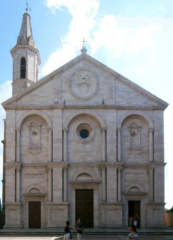 Duomo in Pienza. Early renaissance facade, built as of 1462.